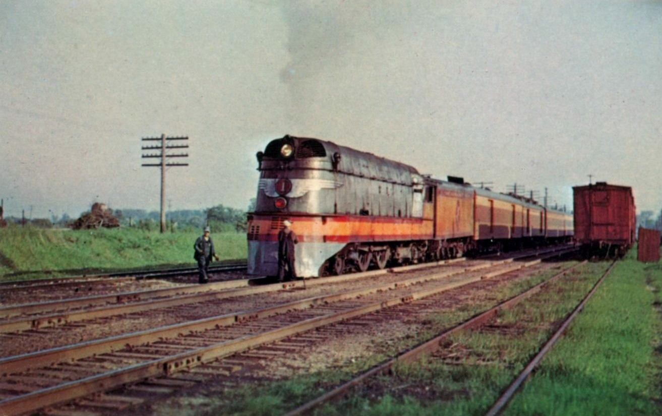 Photo of one of the Chicago, Milwaukee and St. Paul Railway's "Hiawatha" trains stopped near Milwaukee due to trouble. This version of the train was pulled by a streamlined steam locomotive.